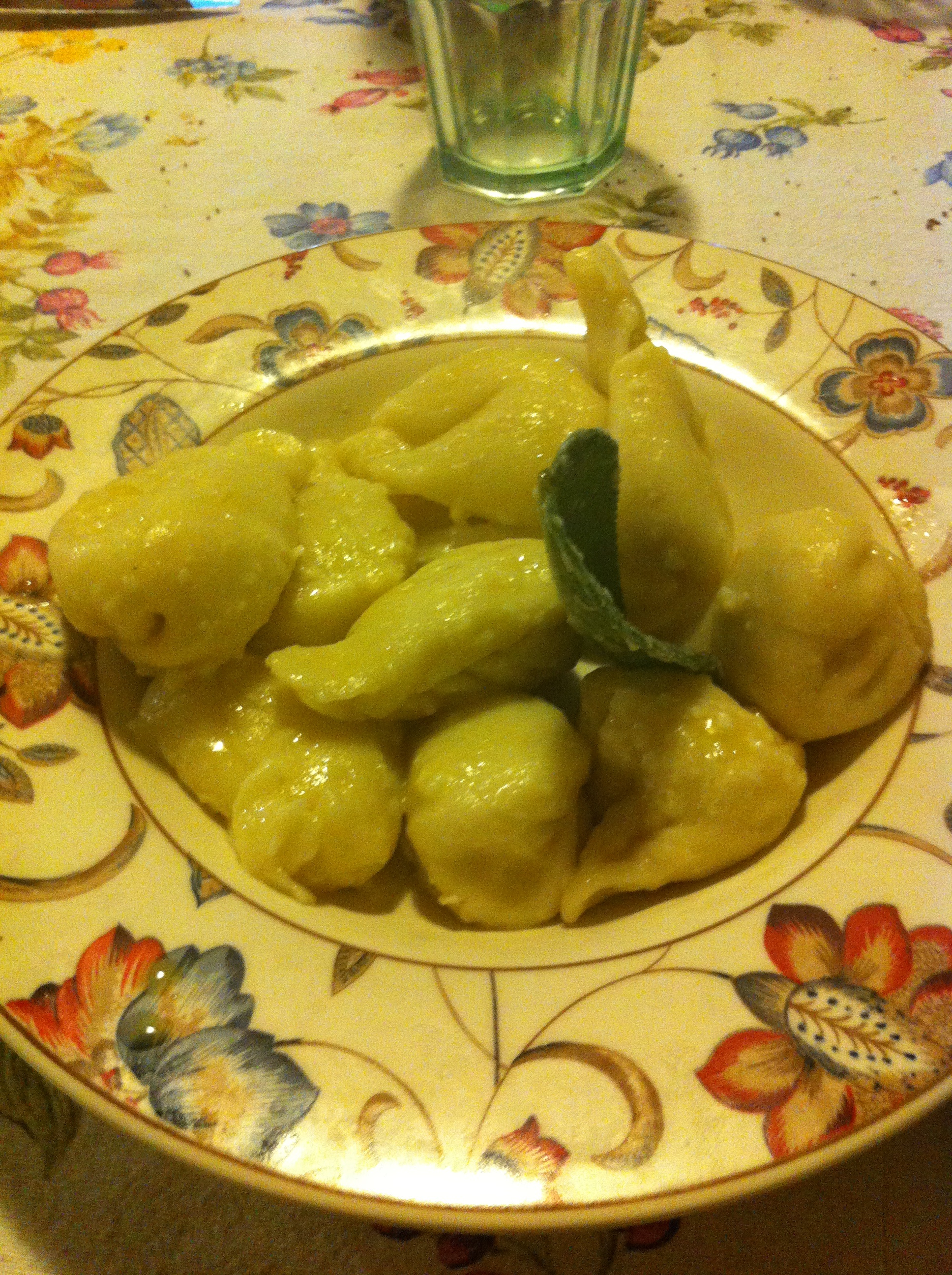 Plate of Culurgiones, typical dish of Ogliastra.